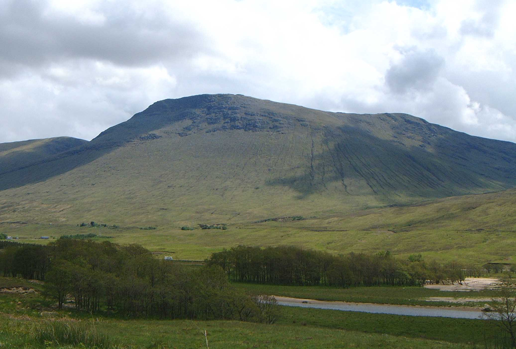 Personal picture taken by Mick Knapton